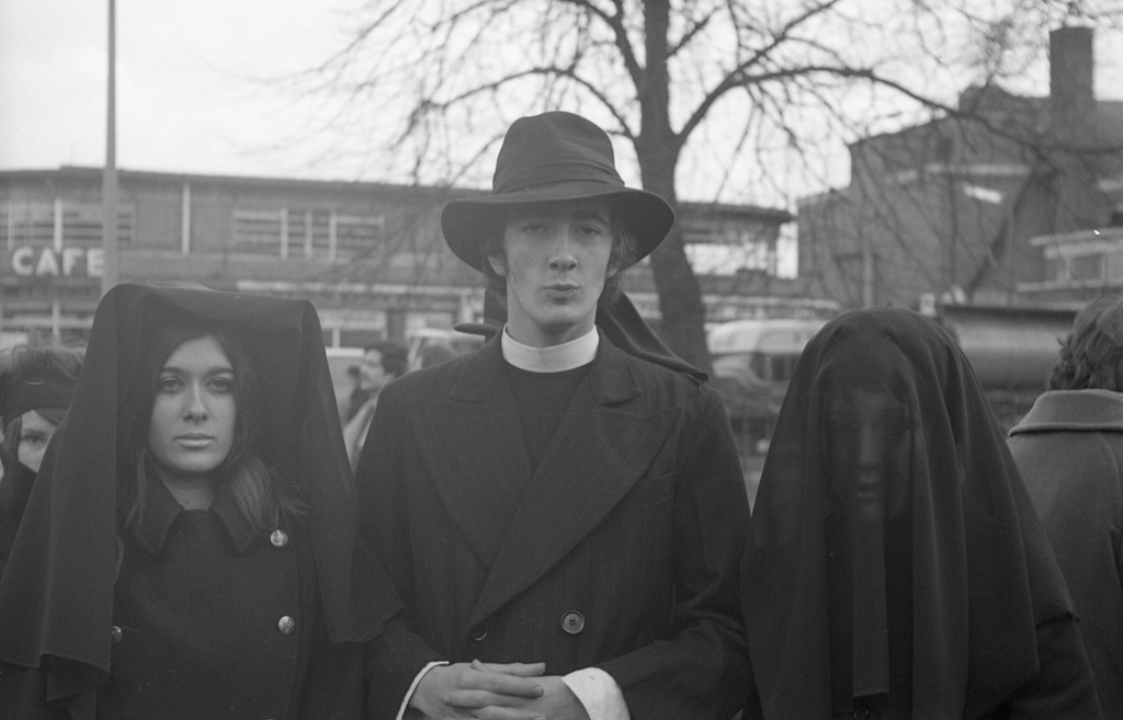 Mock Up Burial organised by Hornsey School of Art Students, April 1969